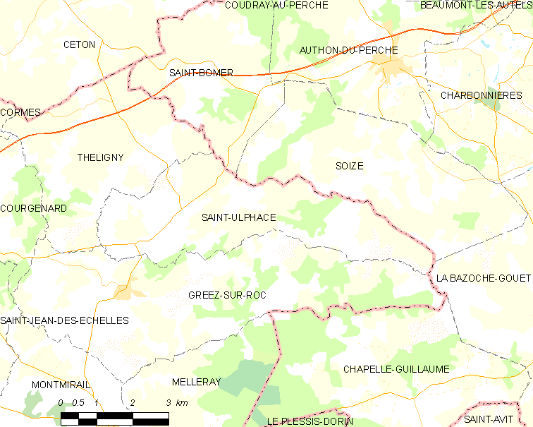 Map of French municipality